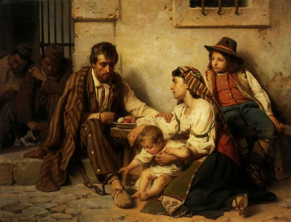 Appointment of a prisoner with his family